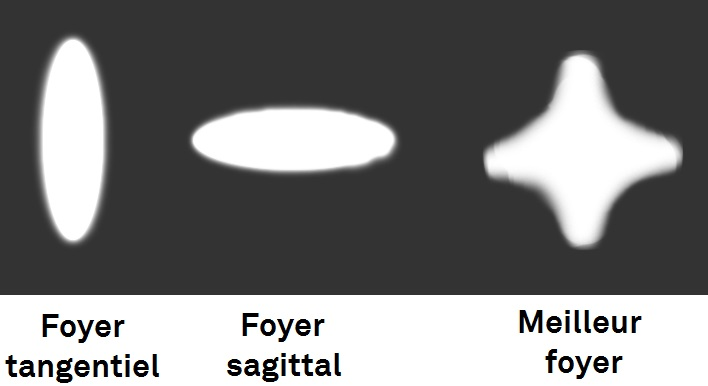 Image of a luminous point source for tangential, sagittal and best focus